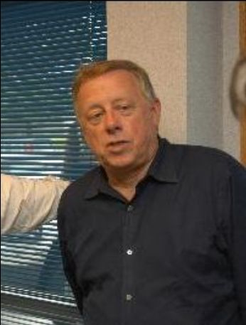 Tennessee Governor Phil Bredesen discuss the tornado damages in Nashville.